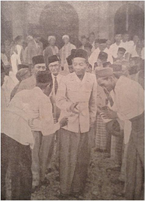 Mr. Assaat, Acting (Provisional) President of the Republic of Indonesia (December 27, 1949—August 17, 1950) was greeted by residents after a Friday prayer at Sumedang Mosque during a work visit in West Java in May 1950.